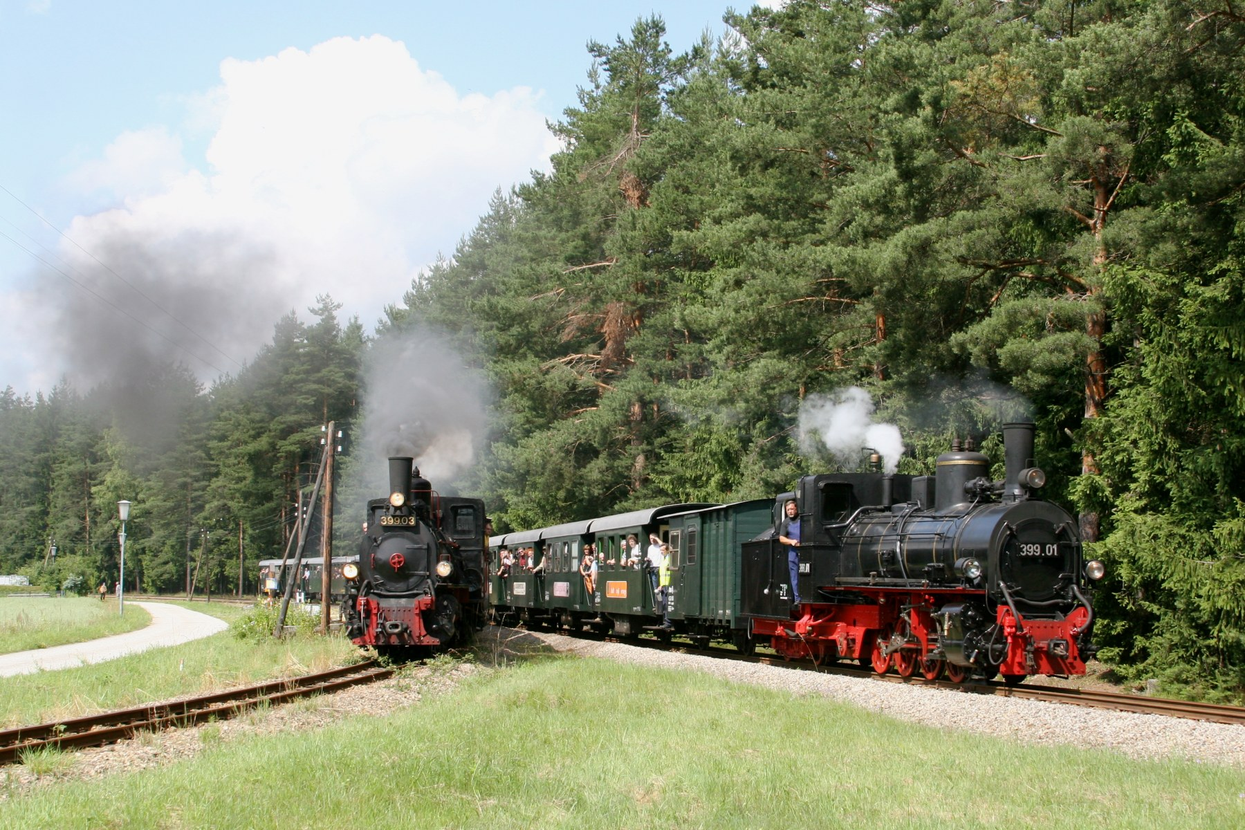 Two trains with class 399 engines on the Waldviertel Narrow Gauge Railways near Alt Nagelberg. After a parallel run of ca. 2 km the northern line divides into a branch to Litschau (right) and one to Heidenreichstein (left).